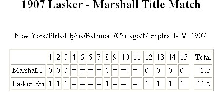 Chess_match Lasker_-_Marshall_Title